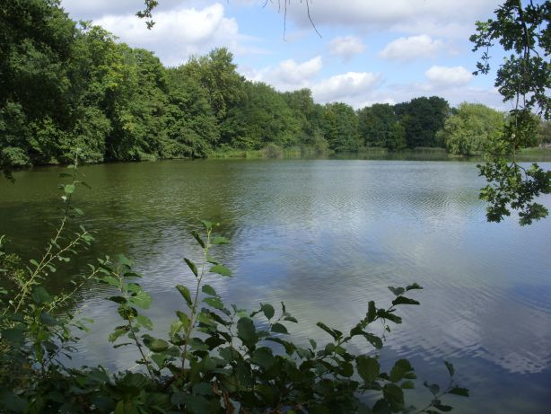 Nature reserve Riddagshausen